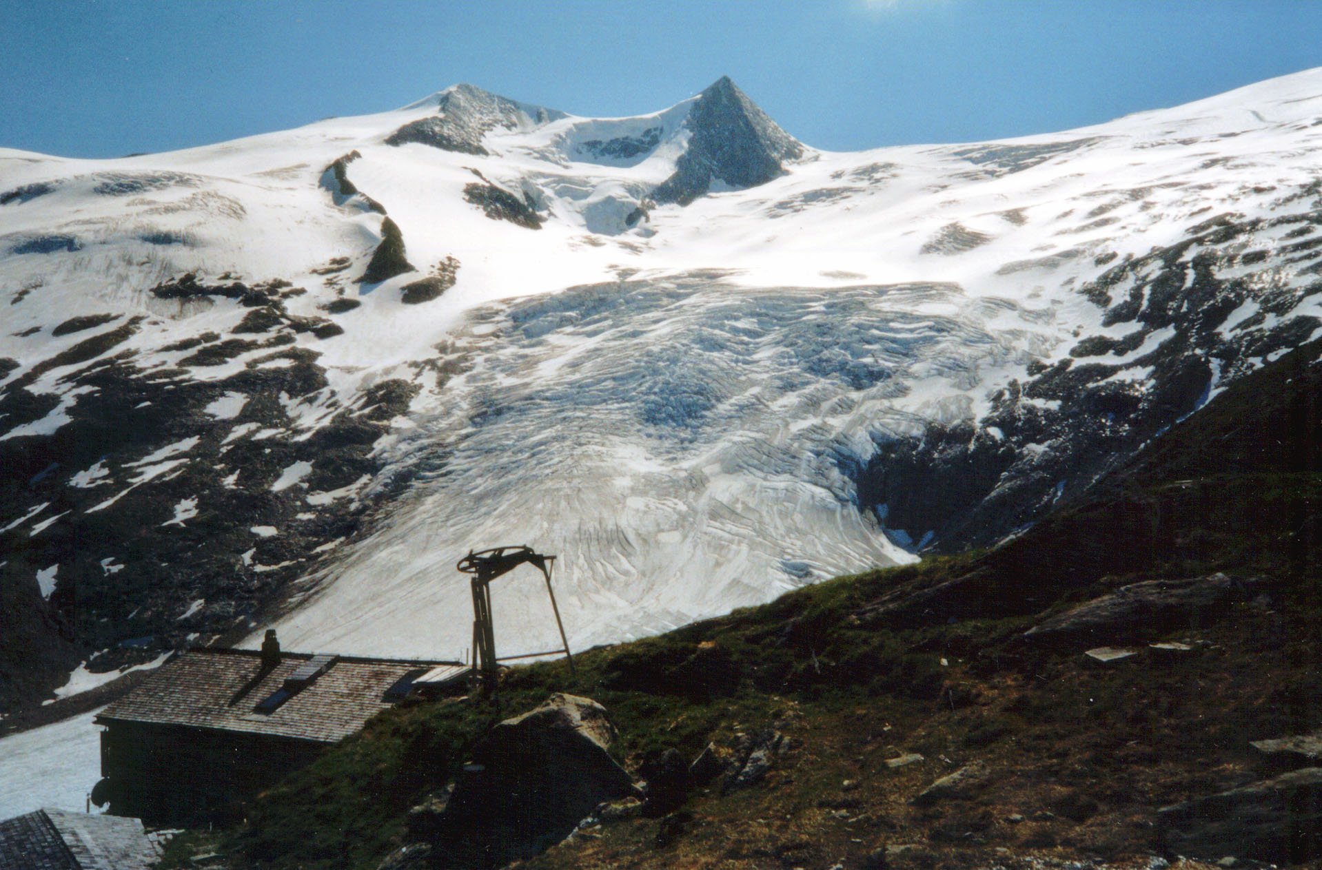 Schlatenkees near Grossvenediger, Austria View from the Alte Prager Huette